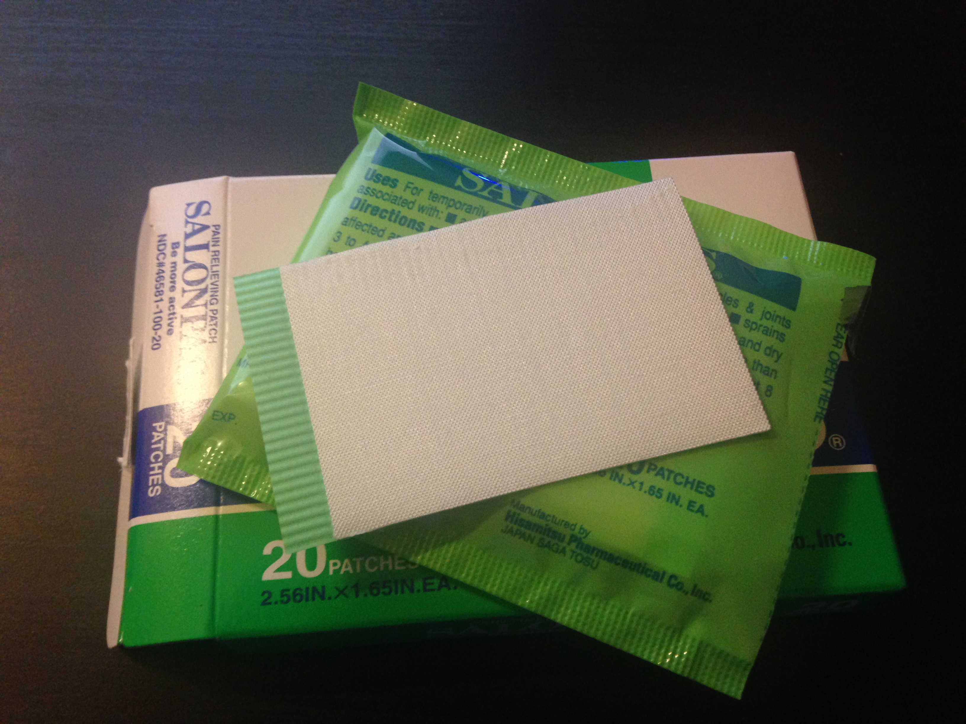 Salonpas Pain Relieving Patch